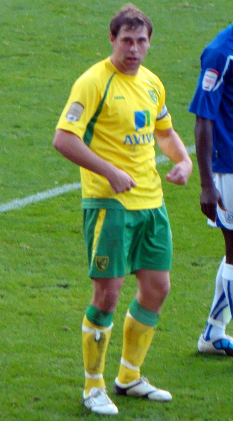 30/10/10 Cardiff V Norwich, Championship, Cardiff City Stadium, Cardiff, Wales